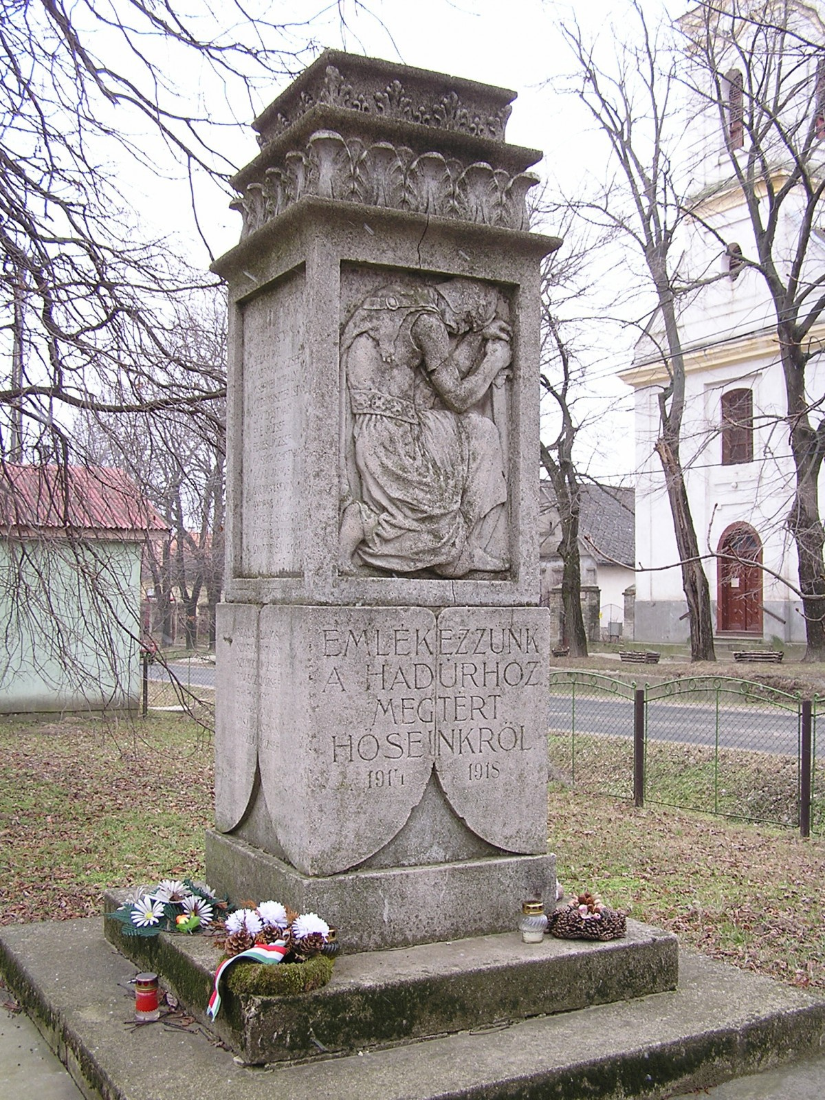 The First World War memorial in Nagyszokoly